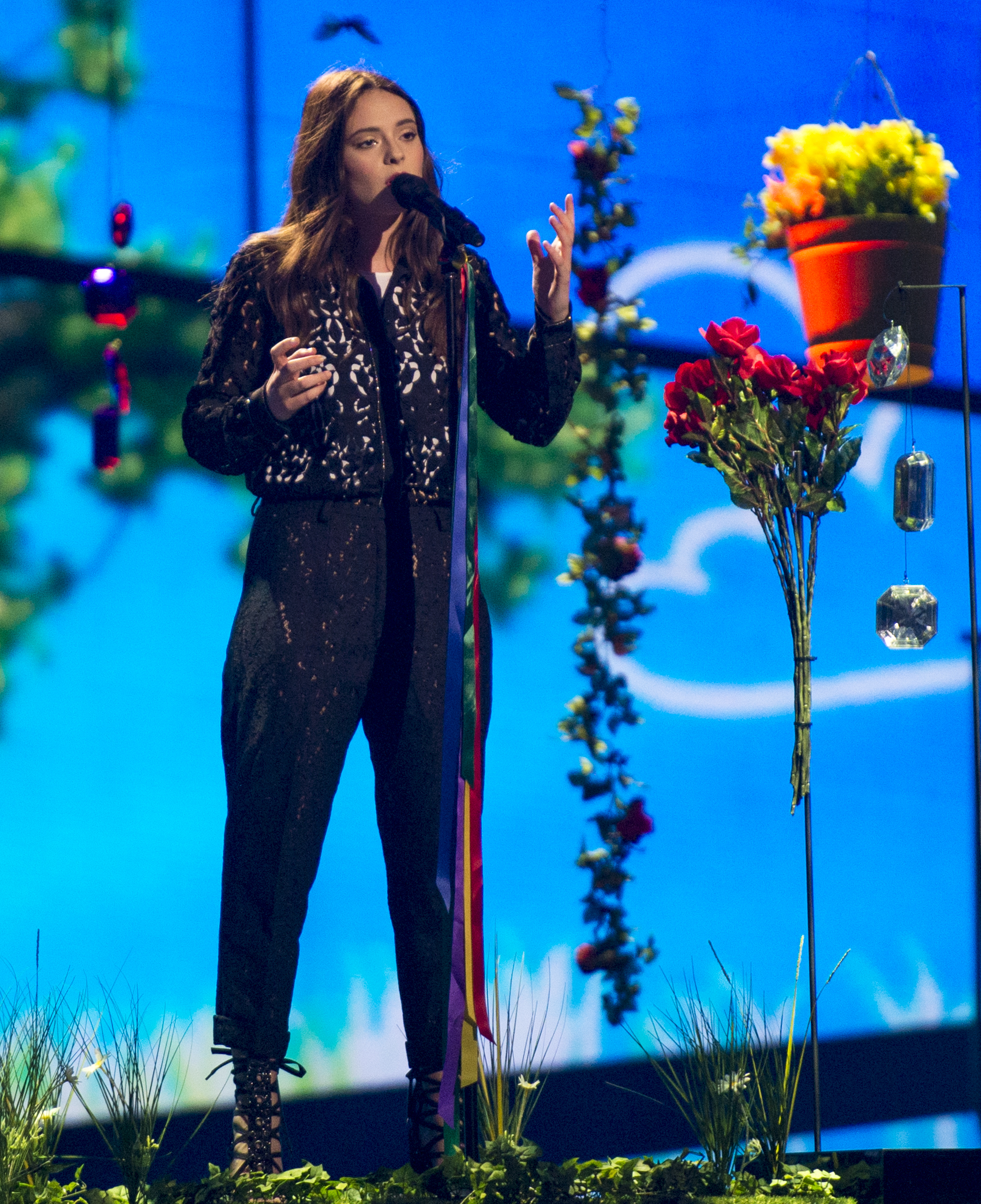 Francesca Michielin representing Italy with the song "No Degree Of Separation" during a rehearsal for "the Big Five" in the Eurovision Song Contest 2016 in Stockholm. (Help translate this text)